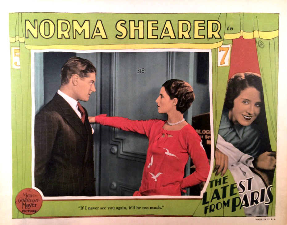 Lobby card for the American romantic drama film The Latest From Paris (1928). There are no copyright marks on the card. At bottom right is Made in USA.